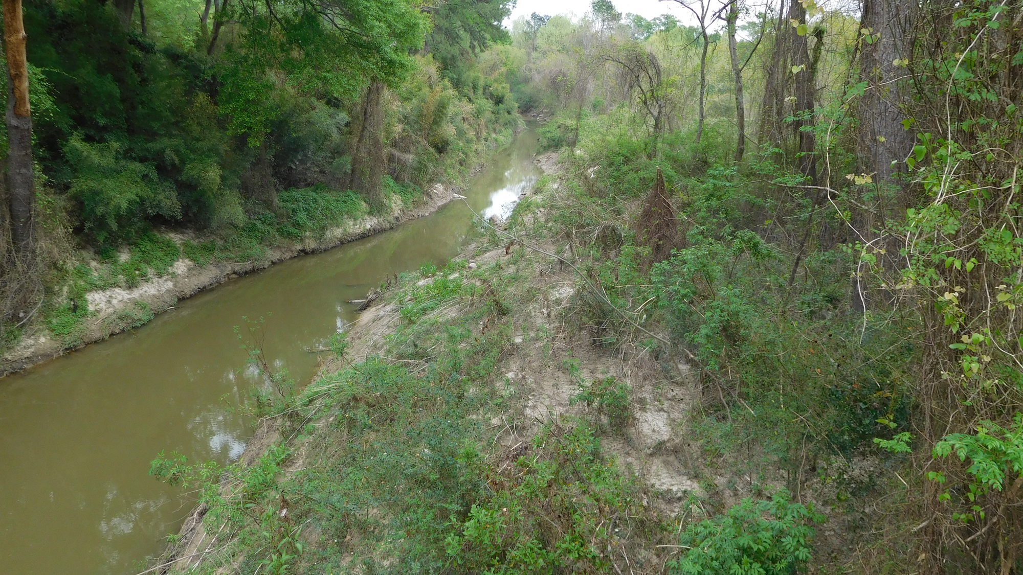 A digital photo of Ponchatoula Creek in Louisiana. This photo was taken on March 26, 2016.